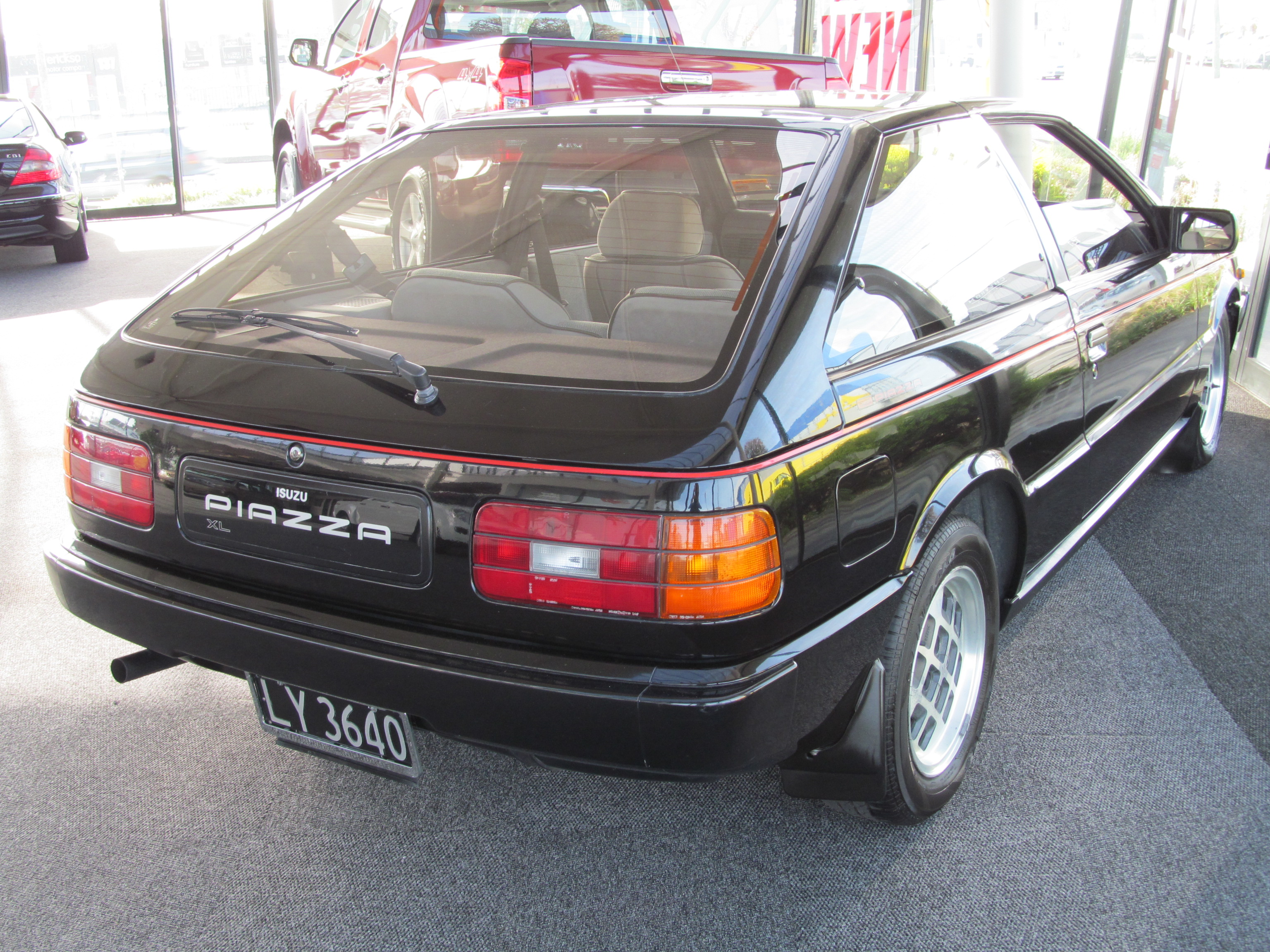 LY3640 Another picture of this fabulous Piazza, which as of Saturday is still sitting in the showroom, more than two months on! The shape of these is so iconic - are there any better wedges out there (apart from the Princess)?!